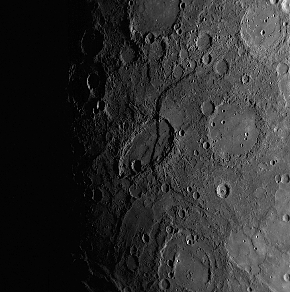 Image Mission Elapsed Time (MET): 108830230 Instrument: Narrow Angle Camera (NAC) of the Mercury Dual Imaging System (MDIS) Resolution: 0.77 kilometers/pixel (0.48 miles/pixel) Scale: This image is about 780 kilometers (490 miles) across; Sveinsdóttir crater is about 120 kilometers by 220 kilometers (75 miles by 140 miles). Spacecraft Altitude: 30,300 kilometers (18,800 miles) Of Interest: Named for Júlíana Sveinsdóttir, an Icelandic painter and textile artist, Sveinsdóttir crater superimposed by Beagle Rupes is a distinctive feature on Mercury's landscape. Unusually elliptical in shape, the crater was produced by the impact of an object that hit Mercury’s surface obliquely. More than 600 kilometers (370 miles) long and one of the largest fault scarps on the planet, Beagle Rupes marks the surface expression of a large thrust fault believed to have formed as Mercury cooled and the entire planet shrank. Beagle Rupes crosscuts Sveinsdóttir crater and has uplifted the easternmost portion (right side portion) of the crater floor by almost a kilometer, indicating that most of the fault activity at Beagle Rupes occurred after the impact that created Sveinsdóttir. Crosscutting relationships such as this are used to understand the sequence in time of the different processes that have affected Mercury’s evolution.